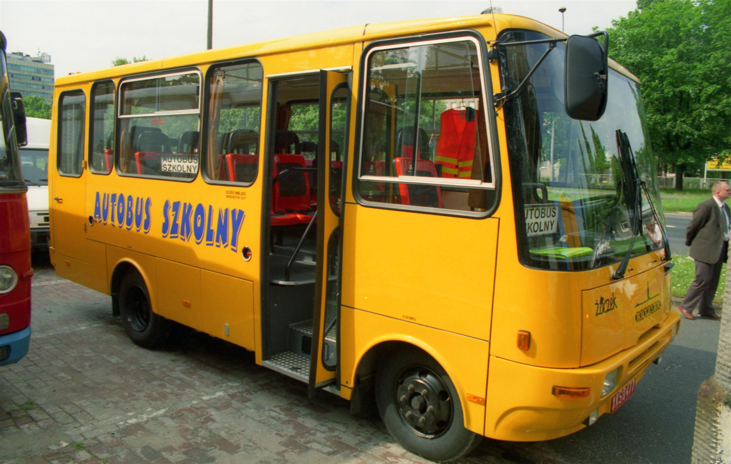 Autosan H6-10 Żaczek school bus in Poland. Built 1999.